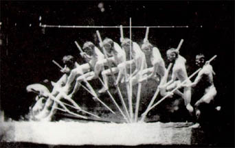 History of a Jump, ca 1885, chronophotography He invented a camera which could record several sequential exposures of a moving person in a single photograph. The camera was able to do this with the means of a rotating disc.